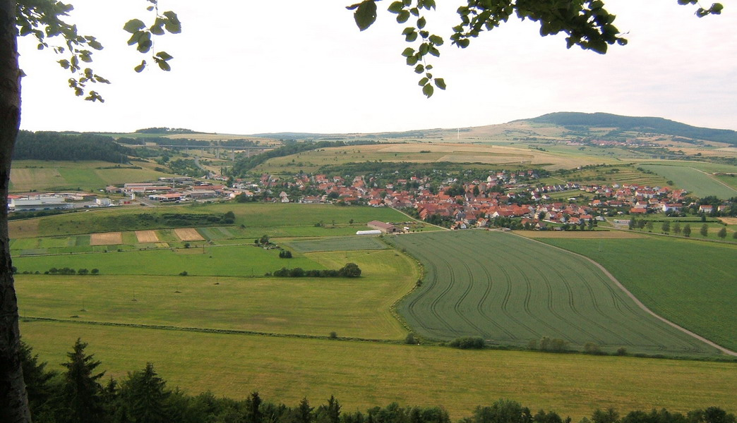 The village Rohr in South Thuringia. In the background you can see the Dolmar.